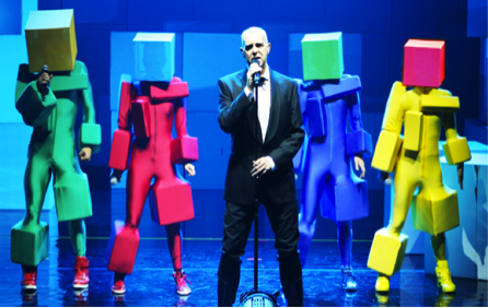 Pet Shop Boys Pandemonium Tour 2009 / 2010